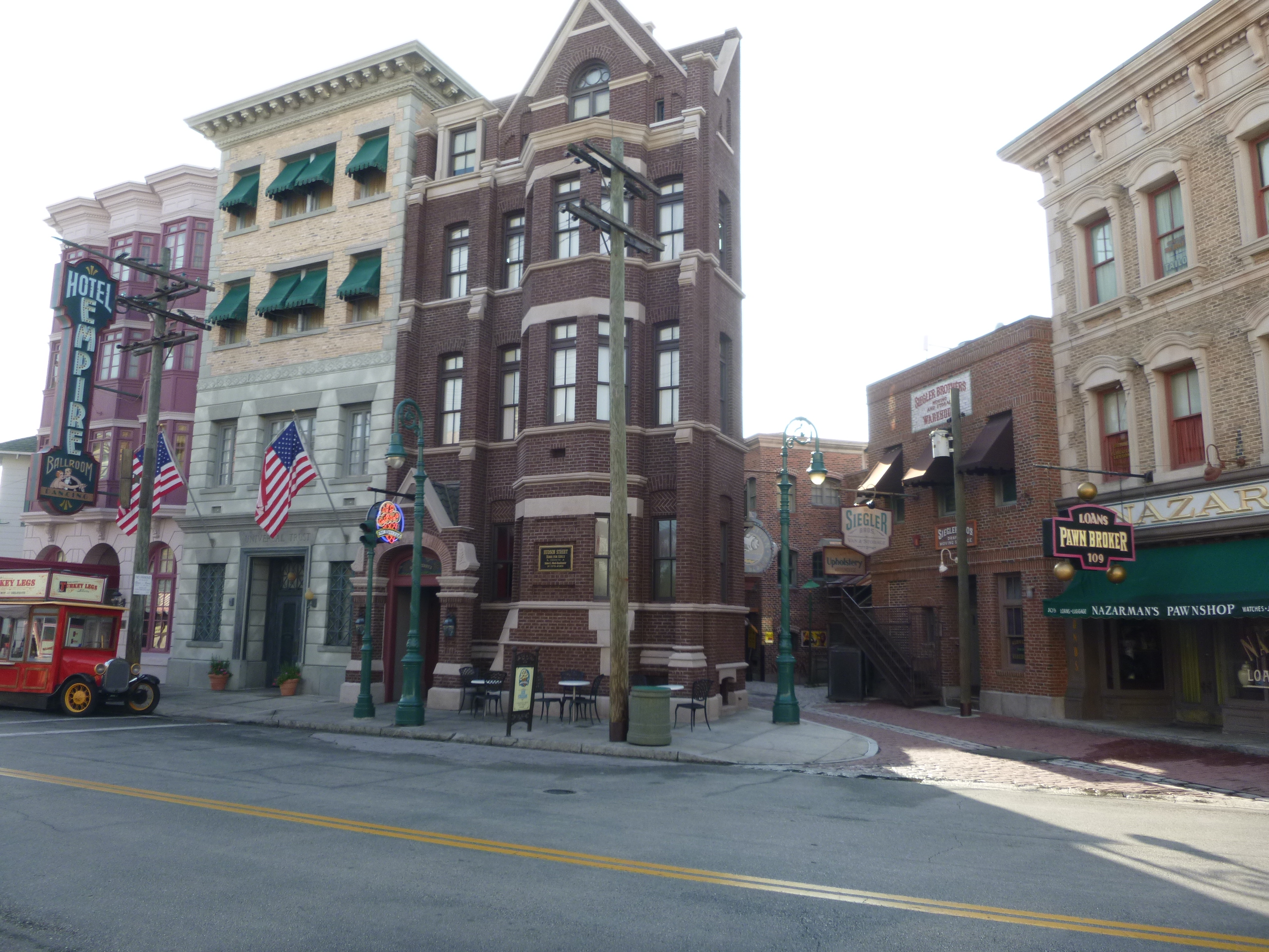 5th Avenue at New York themed area